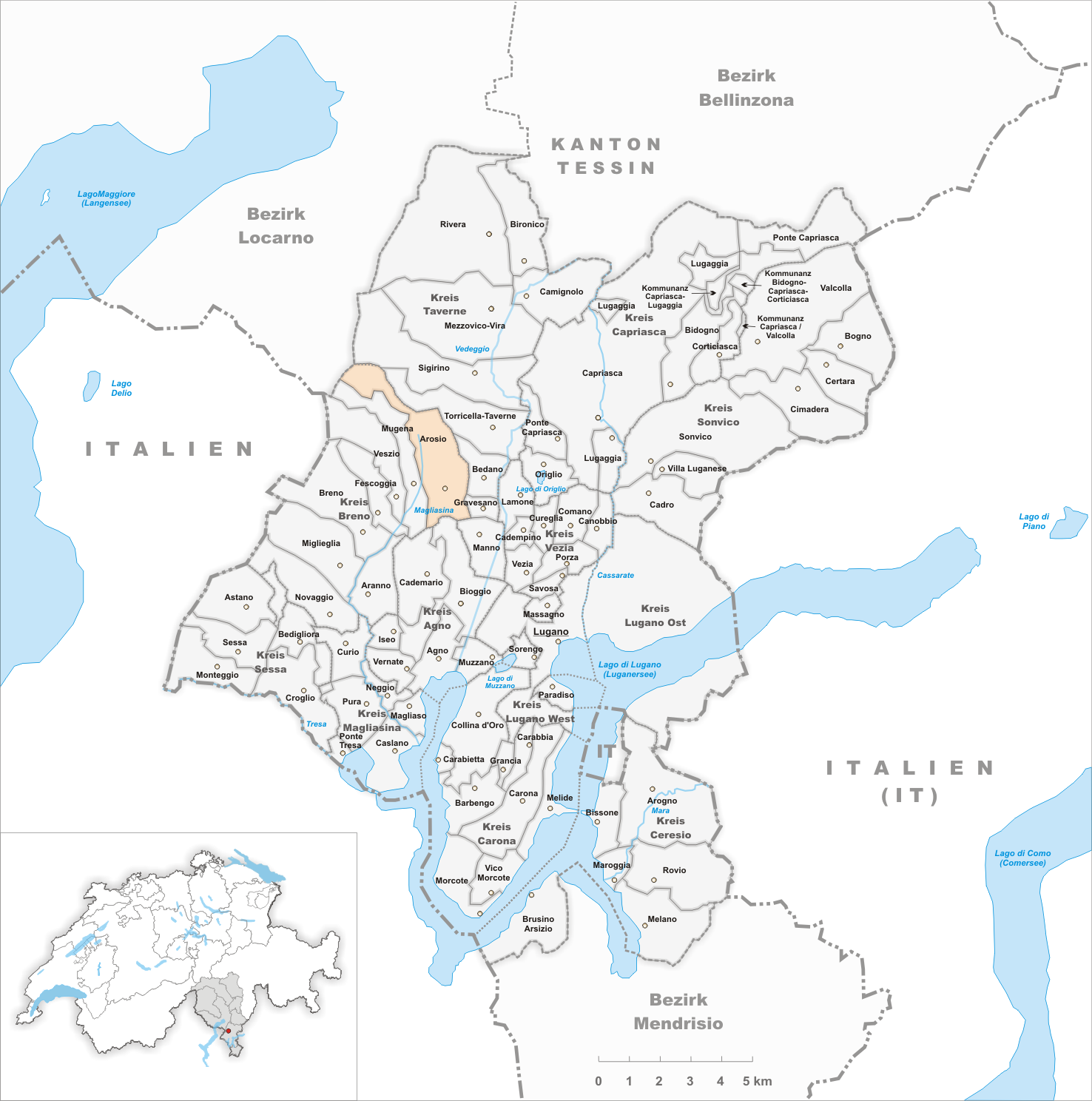 Municipality Arosia Artist: Tschubby